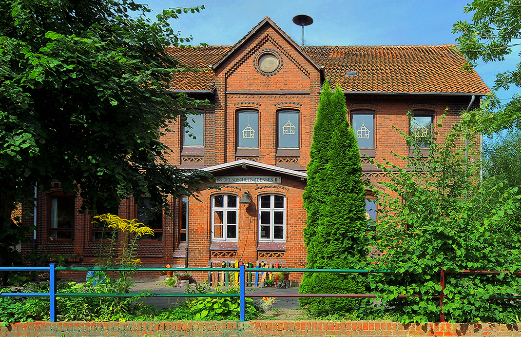 Elementaryschool in Adensen in Nordstemmen, district Hildesheim, Lower Saxony, Germany.